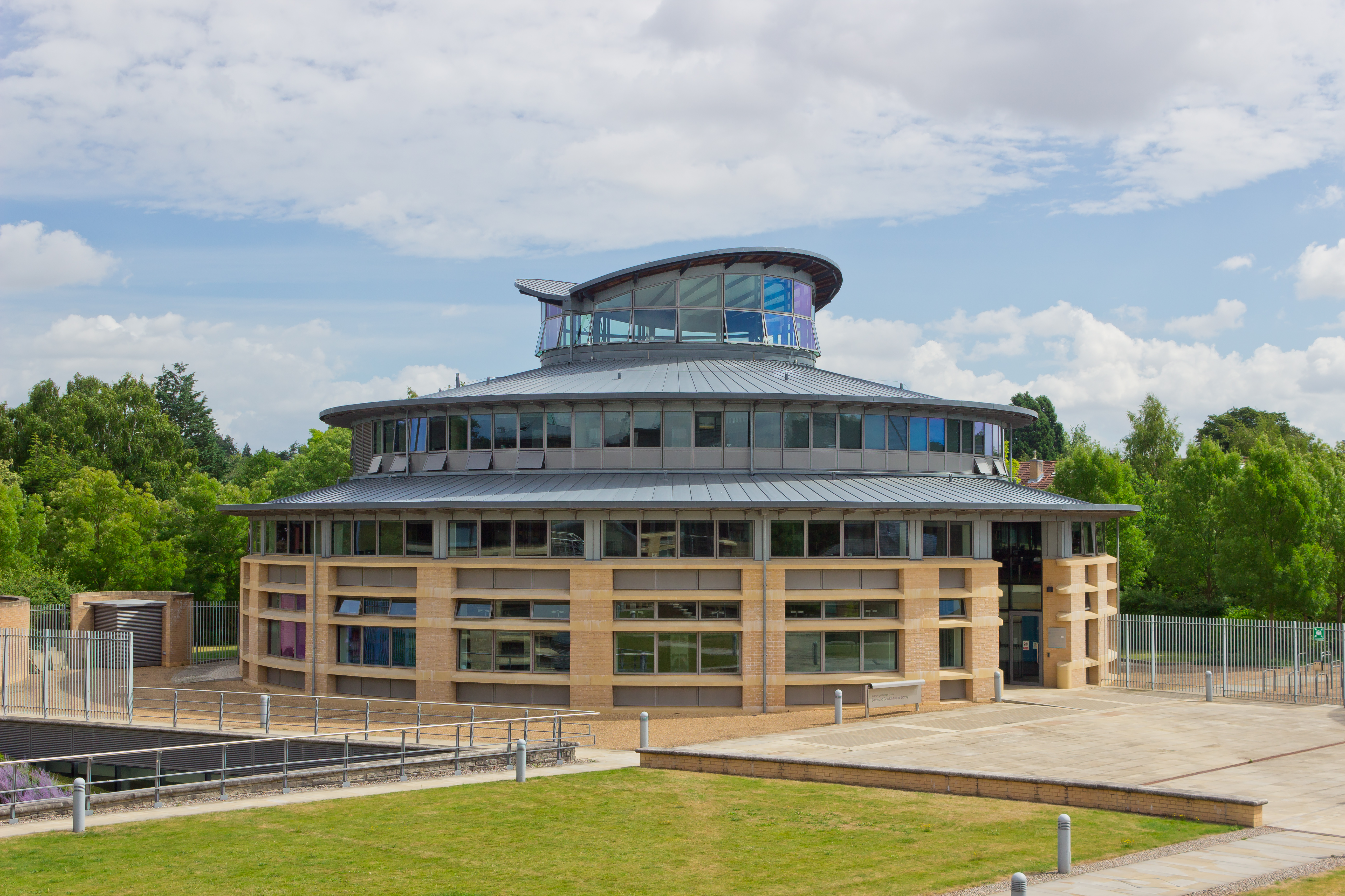 Betti and Gordon Moore mathematical library, Centre for Mathematical Sciences, University of Cambridge